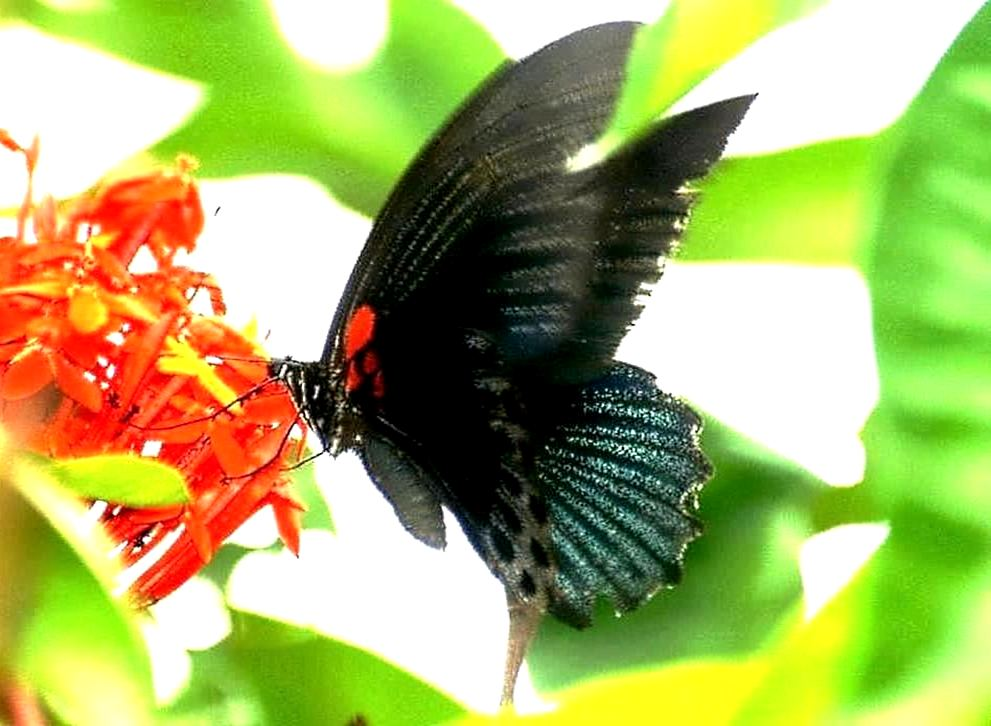 Papilio Memnon is important spécie from south East Asia with any different subspecies This is male and any female frequently have got much different look . This specie Papilio Memnon Memnon is present Java Bali Bawean Lombok . The male have got black wings with some white spot Photo taken at Kalibaru city, in the garden of the plantation, the butterfly sucking Lantana flower, Eastern Java